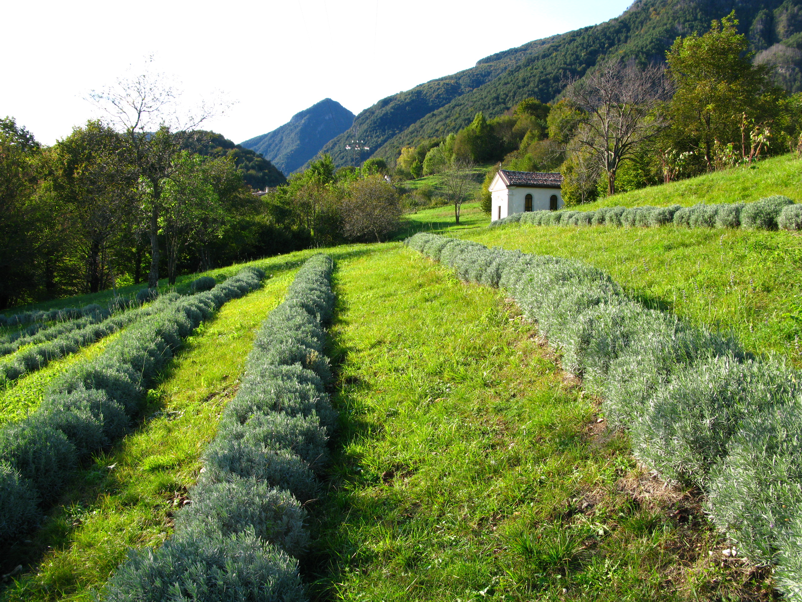 Lavender cultivation near the church of Stavoli, a nearly abandoned villages near Moggio Udinese / Friuli-Venezia Giulia / Italy / EU.